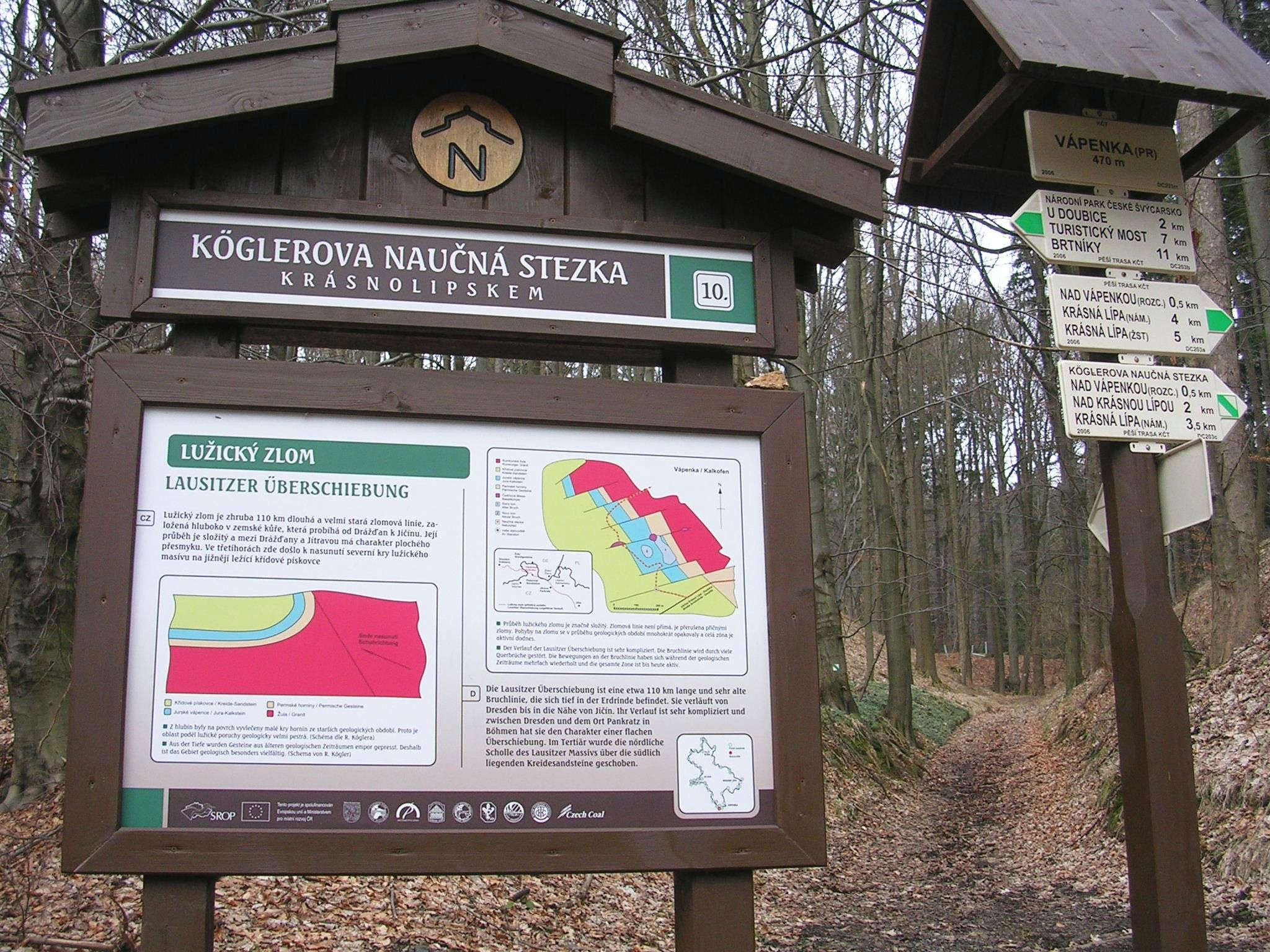 Kögler's Educational Trail (geologically), Ústí nad Labem Region, Lusatian Mountains, the Czech Republic.